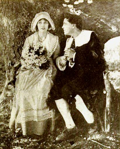 Still from the American film Evangeline (1919) with Miriam Cooper and Alan Roscoe, from an ad on page 133 of the February 1920 Motion Picture Magazine.